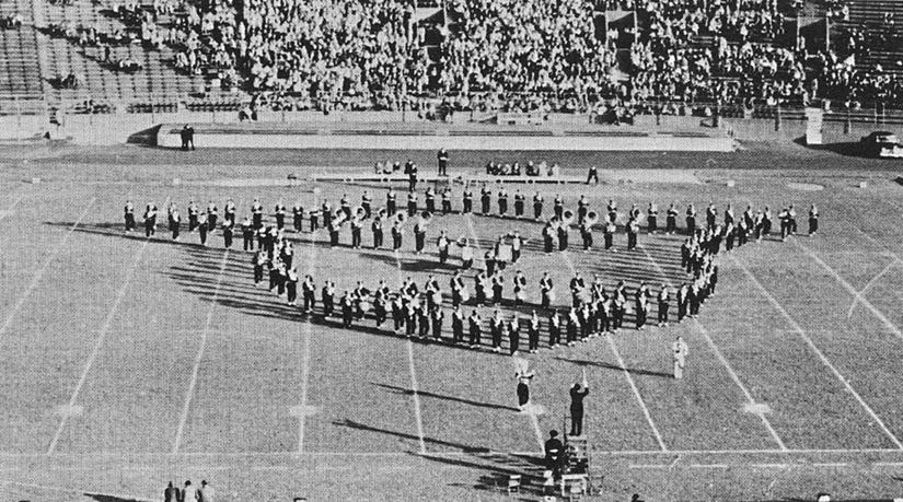 The Pitt Band playing the University of Pittsburgh Alma Mater in the Panther head formation at the close of a half time show during the 1952 Pitt football season.